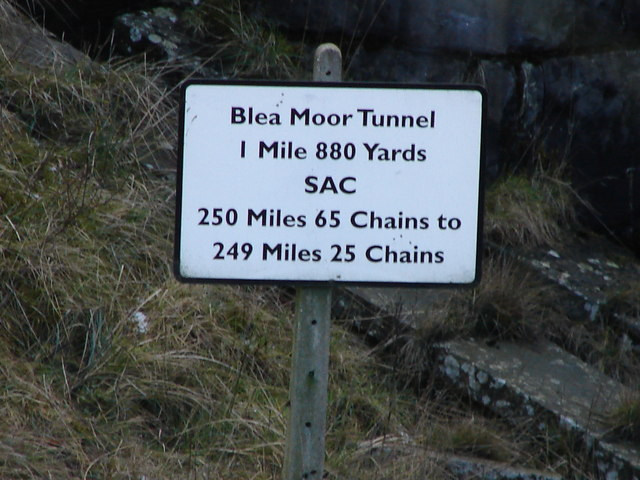 Blea Moor Tunnel, near to Stone House, Cumbria, Great Britain. Sign at the northern portal of Blea Moor Tunnel